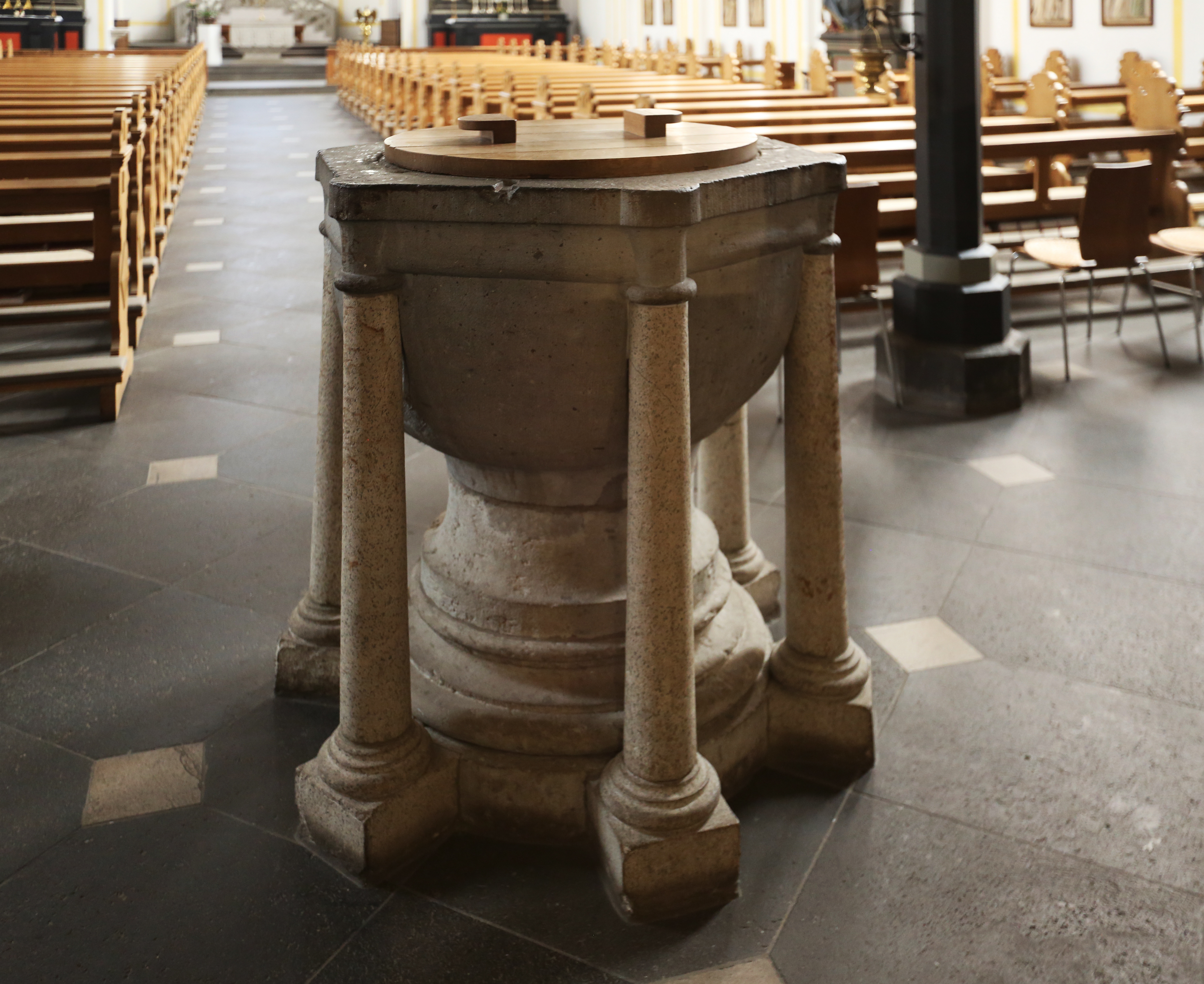 Romanesque baptismal font of Saint Gervasius - St. Protasius Church in Sechtem (Bornheim), Germany